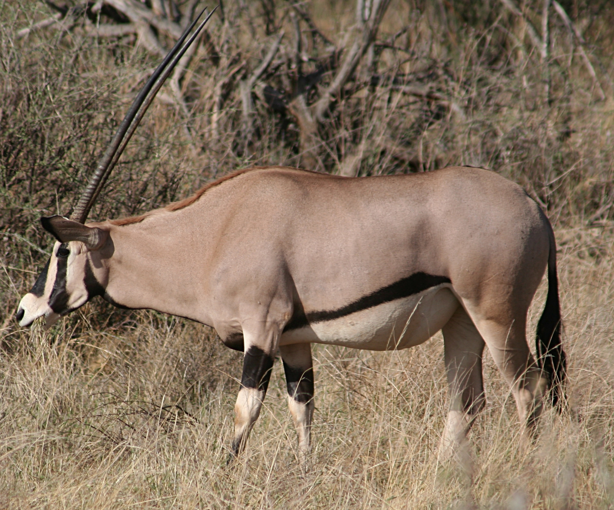 Photograph: Beisa Oryx (Oryx gazella beisa), side view, Samburu National Reserve, Kenya.